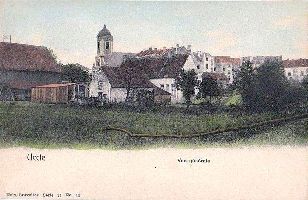 Old view taken around the center of Uccle village,circa 1905-Brussels